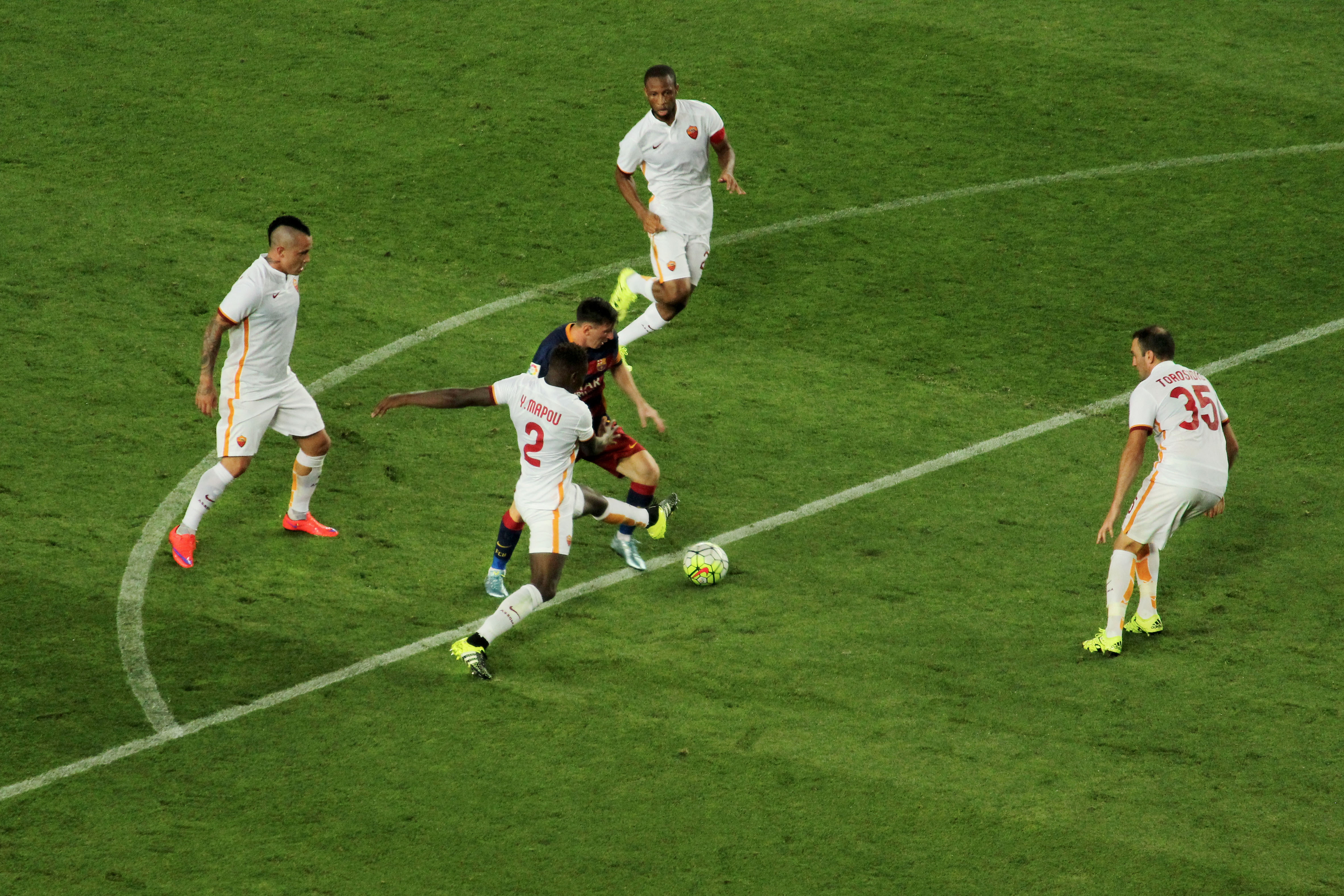 Lionel Messi dribbling past AS Roma defence in 2015-16 pre-season friendly.